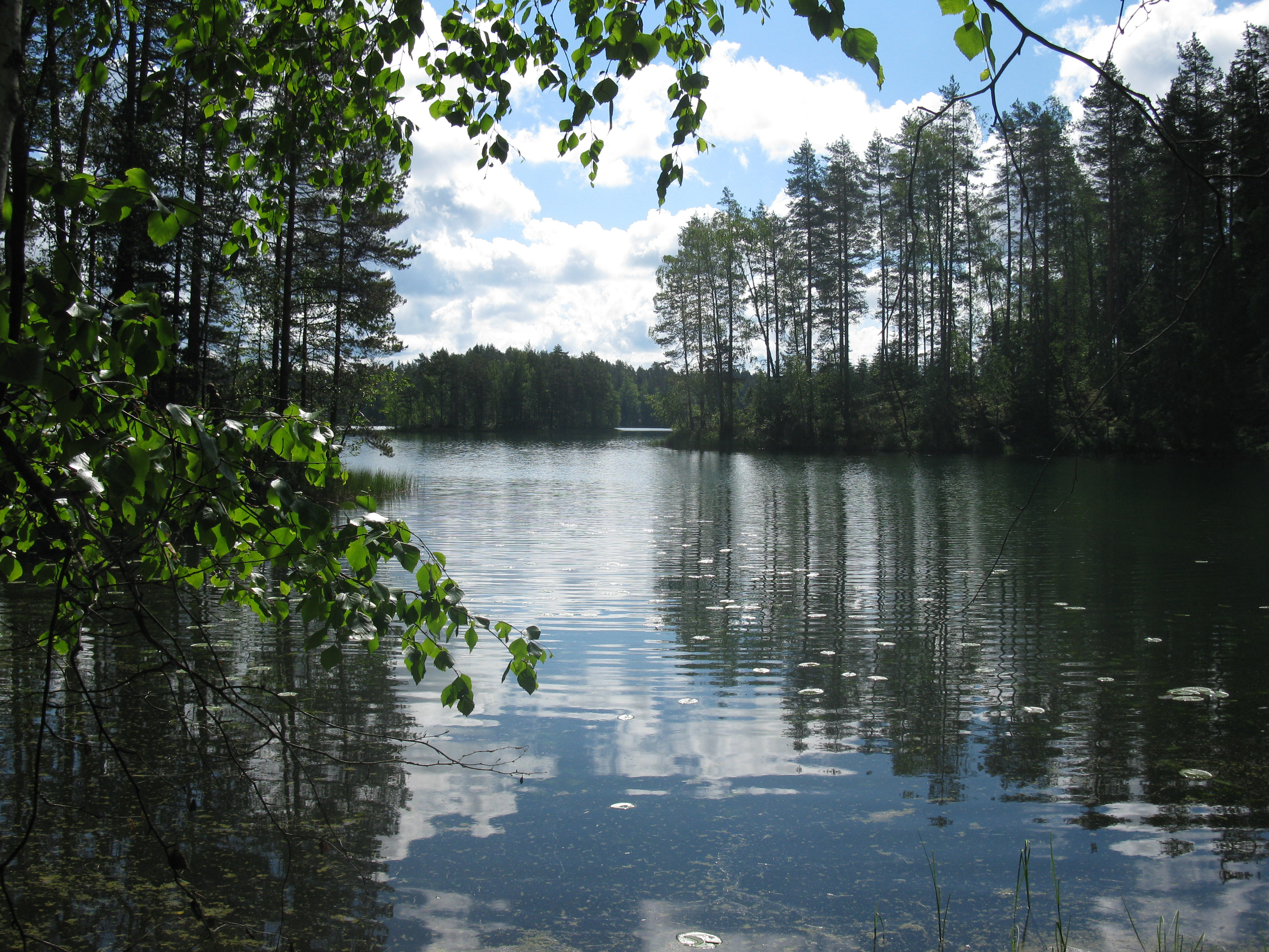 Lake Iso-Valkee in Somero, Finland Proper, Finland